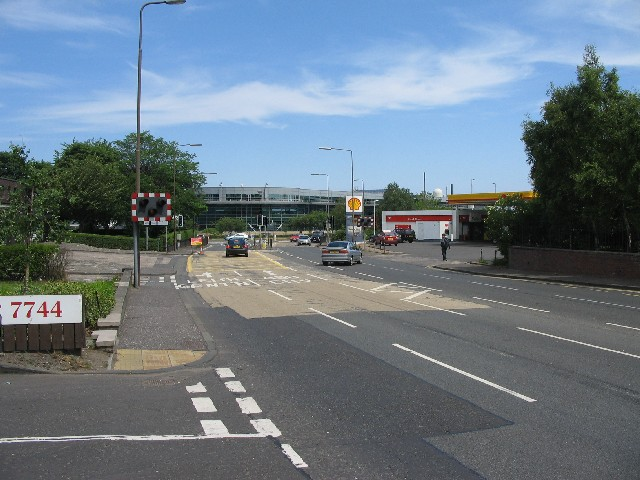 Telford Road approaching Crewe Toll roundabout